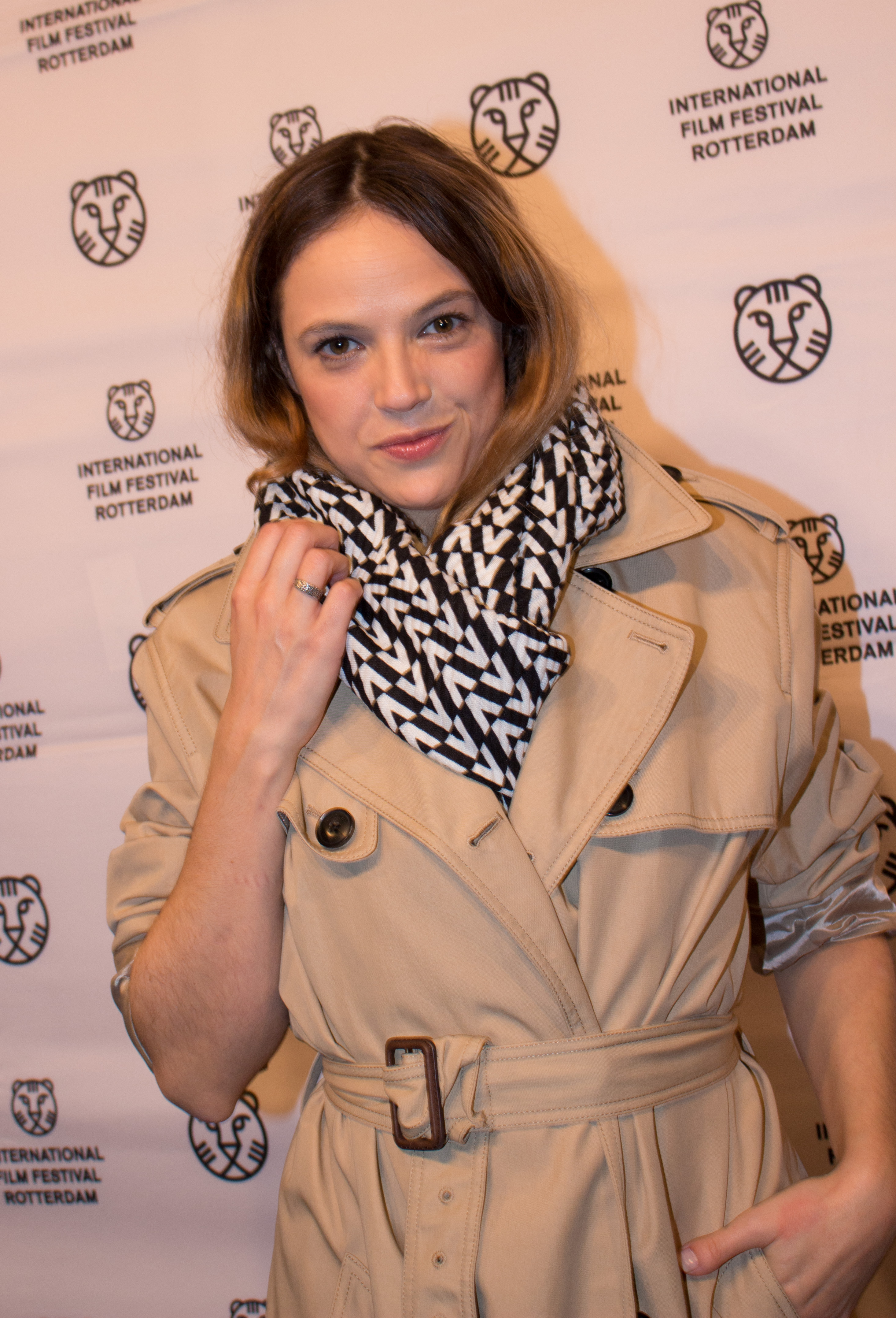 Catarina Wallenstein at the IFFR 2020 promoting the movie "A Yellow Animal"